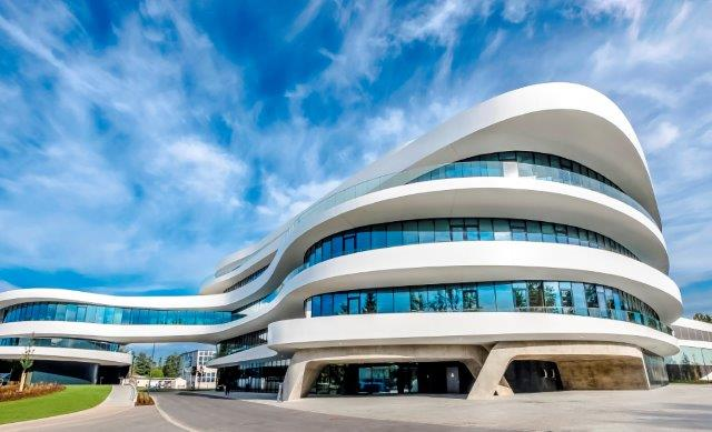 LifeCycle Building - BHS Corrugated